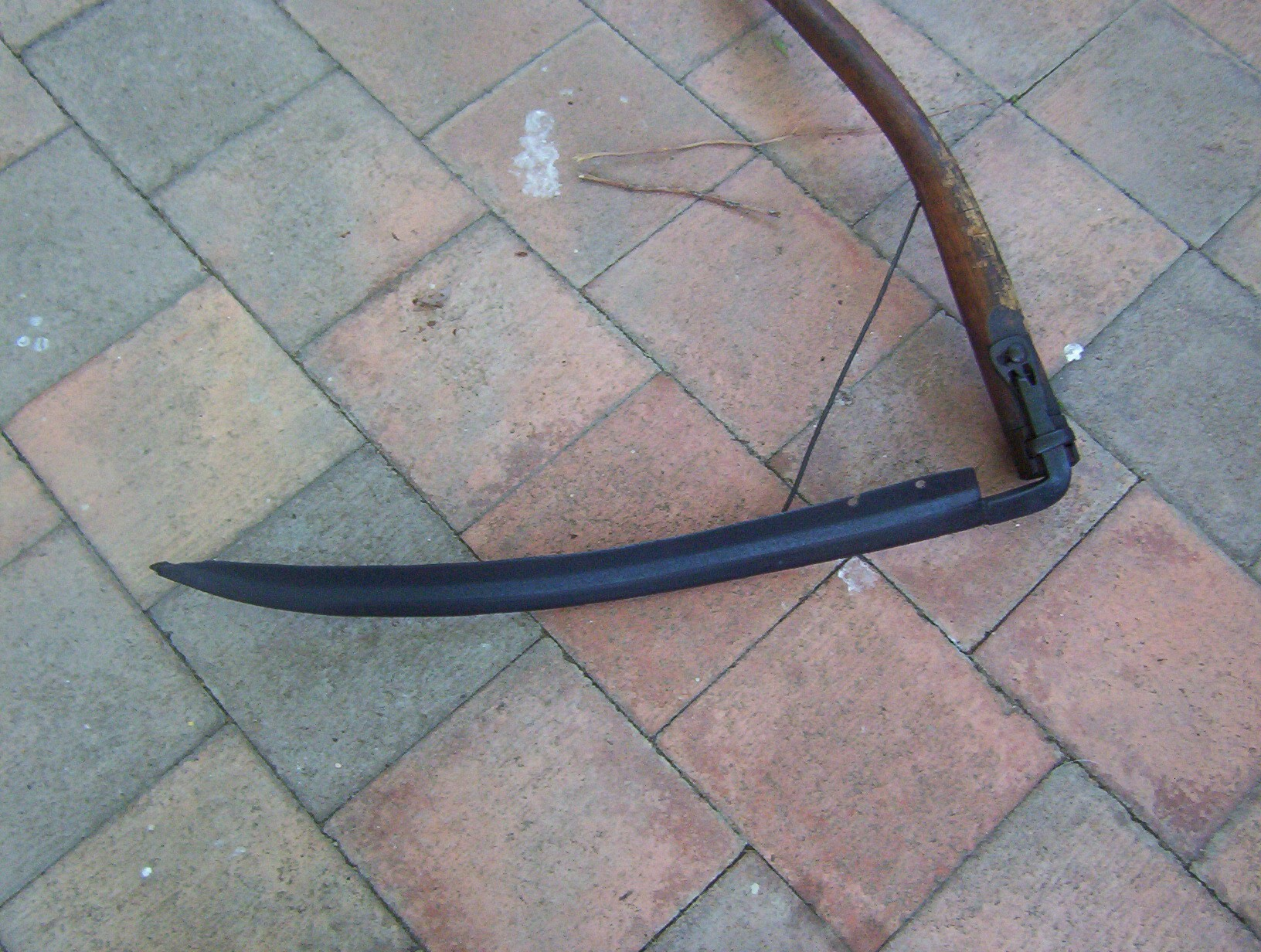 The curved blade of a scythe. Note: this image shows the blade with its edge uppermost – normally used the other way up, with the blade pointing to the left of the mower.